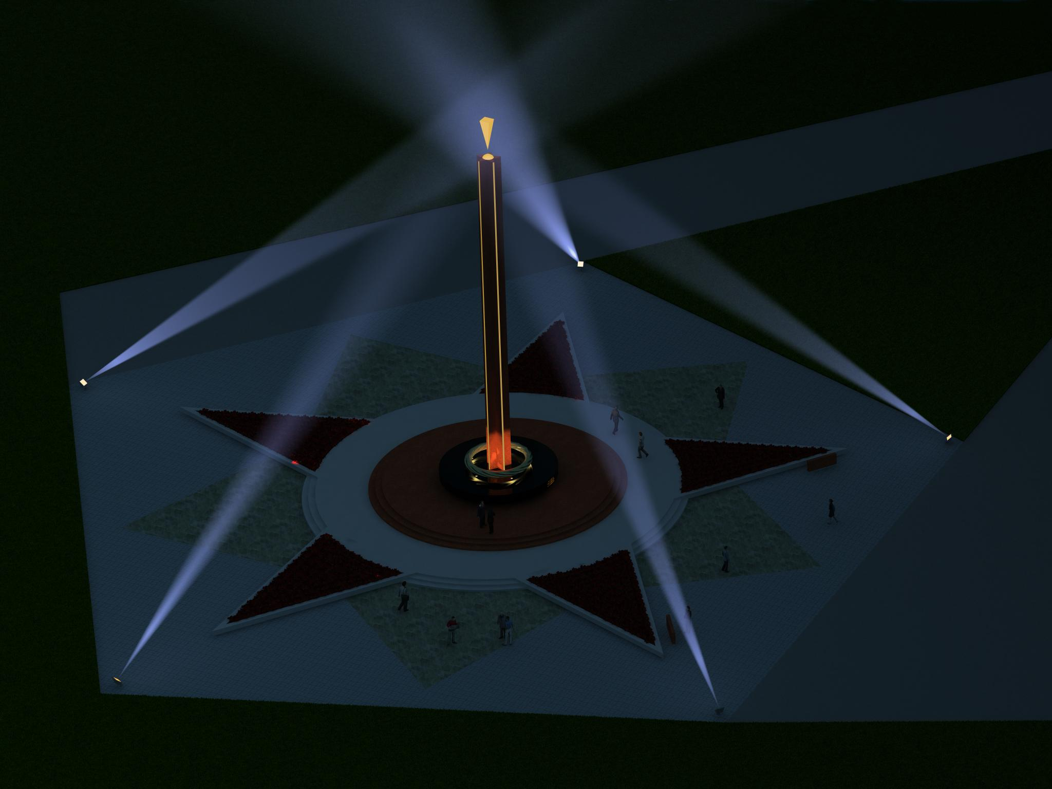 Fishman Peter's work